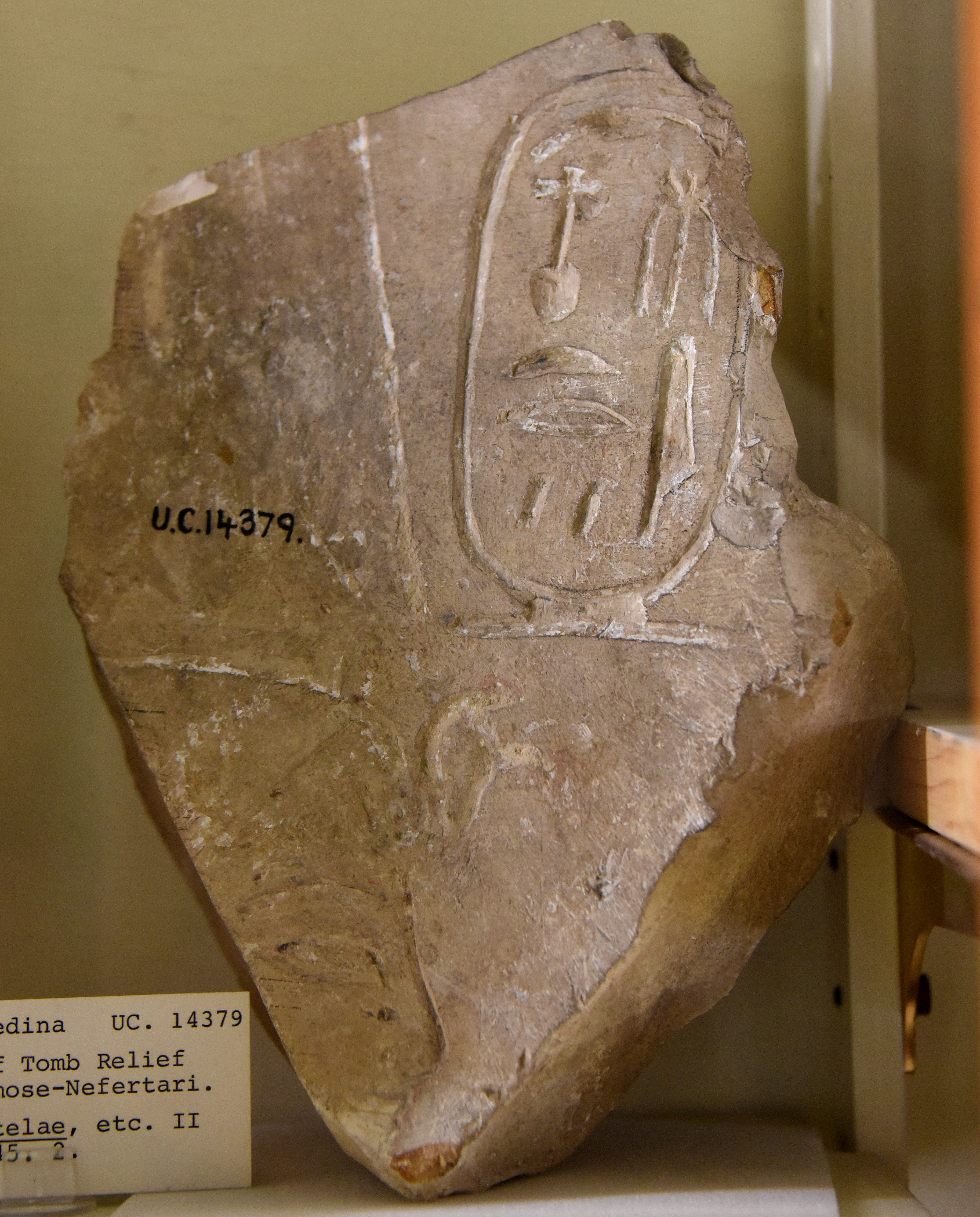 Limestone fragment from a tomb relief showing cartouche of Ahmose-Nefertari, face of royal figure wearing uraeus below. Ramassid style .Probably from Deir el-Medina, Egypt. 19th Dynasty. The Petrie Museum of Egyptian Archaeology, London. With thanks to the Petrie Museum of Egyptian Archaeology, UCL.